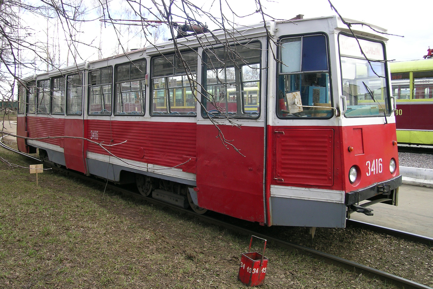 71-605 (KTM-5) tramcar in Nizhny Novgorod.